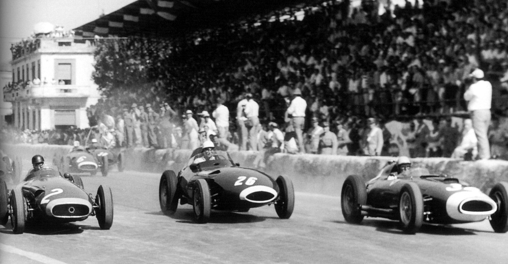 1957 Pescara Formula 1 Grand Prix